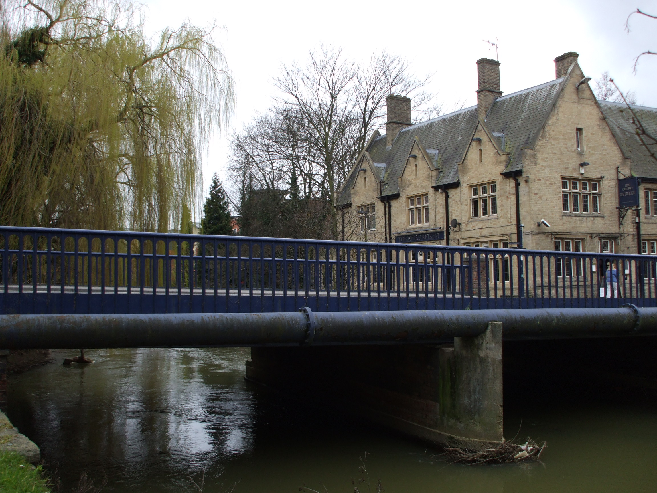 Hythe Bridge across Castle Mill Stream in Oxford. The pipe is a water main. The gables stone building is the Oxford Retreat pub, formerly the Nag's Head